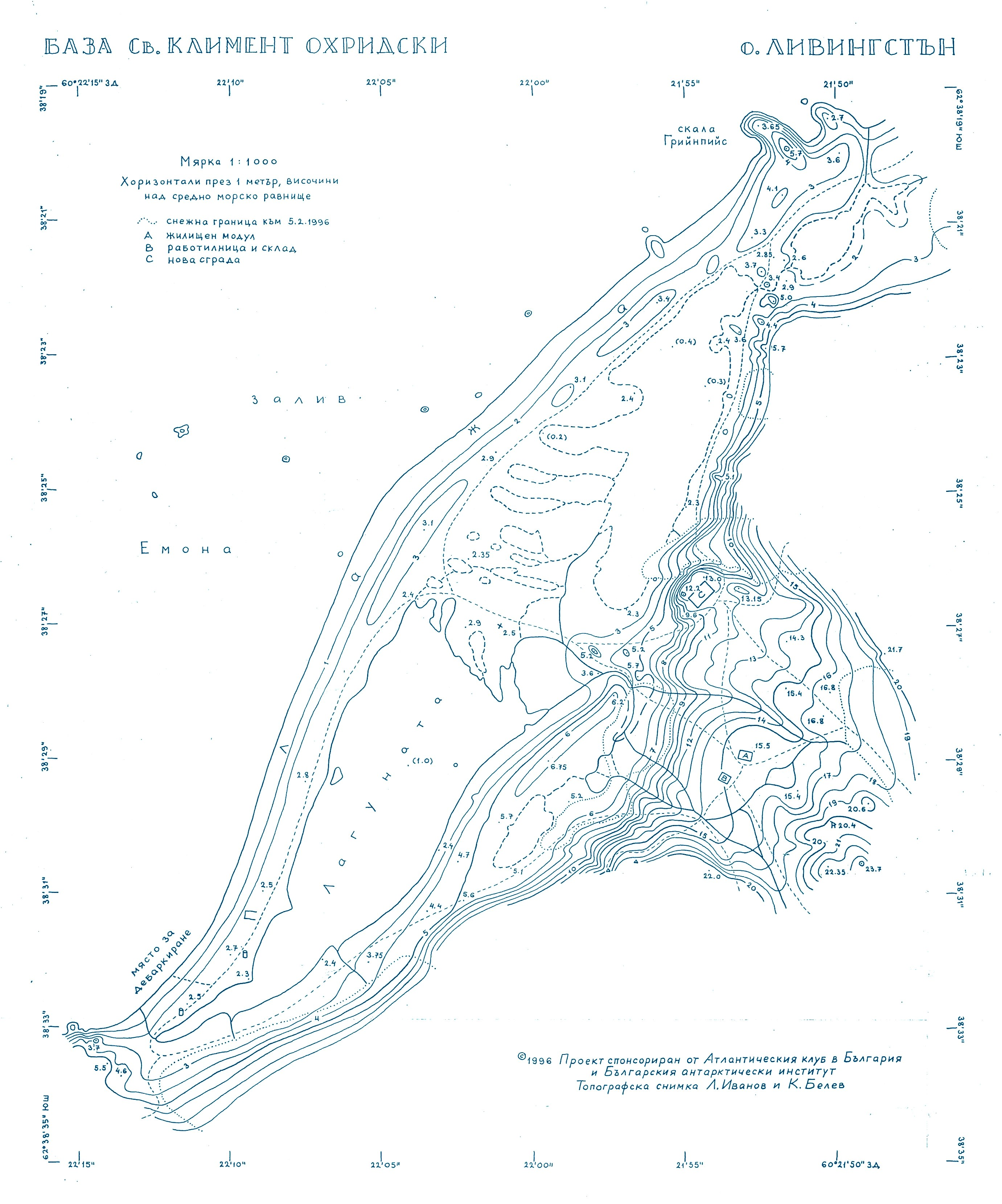 L.L. Ivanov, St. Kliment Ohridski Base, Livingston Island, 1:1 000 scale topographic map, Commissioned by the Antarctic Place-names Commission of Bulgaria, sponsored by the Atlantic Club of Bulgaria and the Bulgarian Antarctic Institute, Sofia, 1996. The first Bulgarian Antarctic topographic map. Note: Structure 'C' refers to the foundations of the new main building of the Bulgarian Base as of 1996; the building itself was completed in 1998.